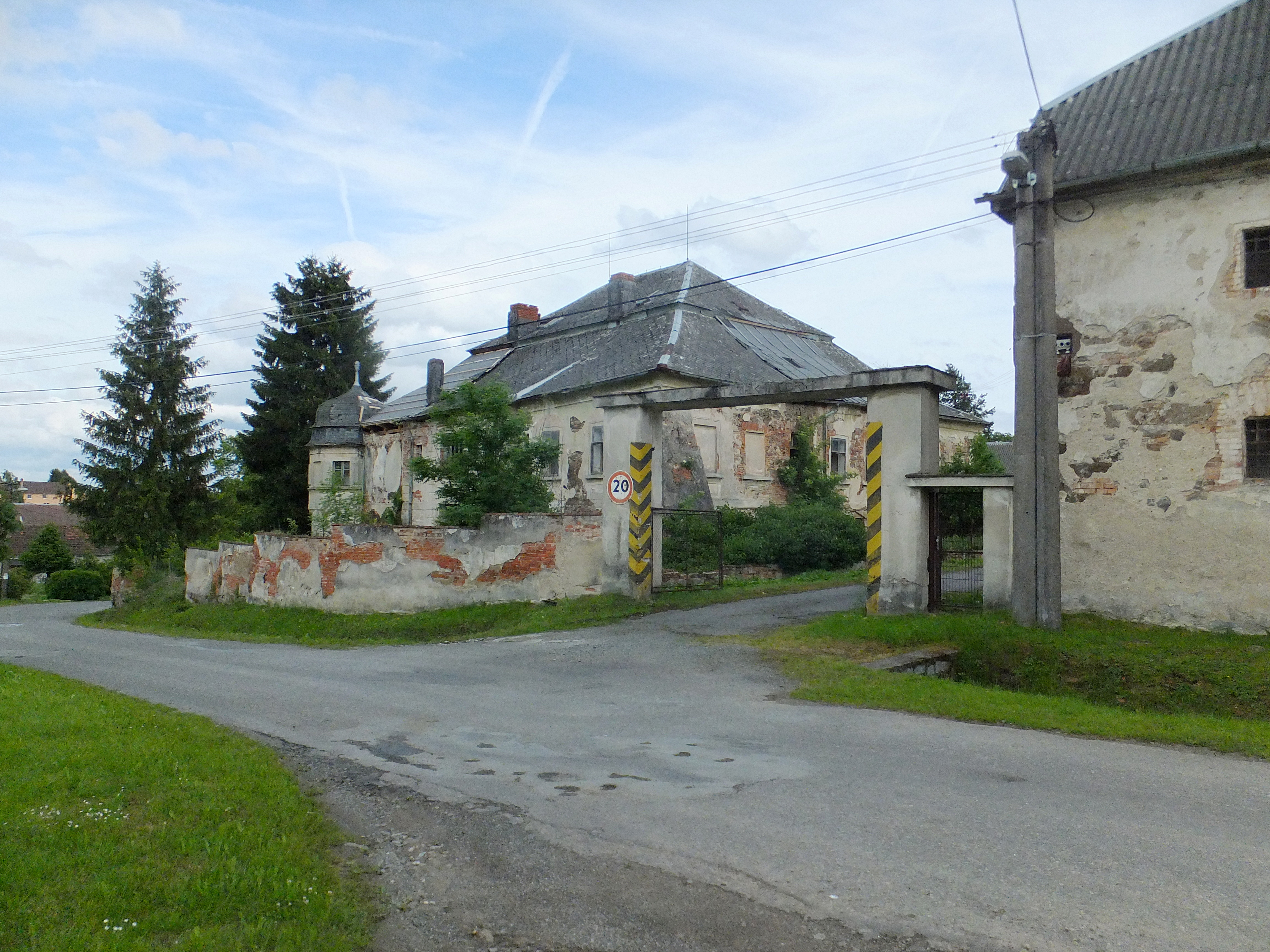 The castle in Nedražice